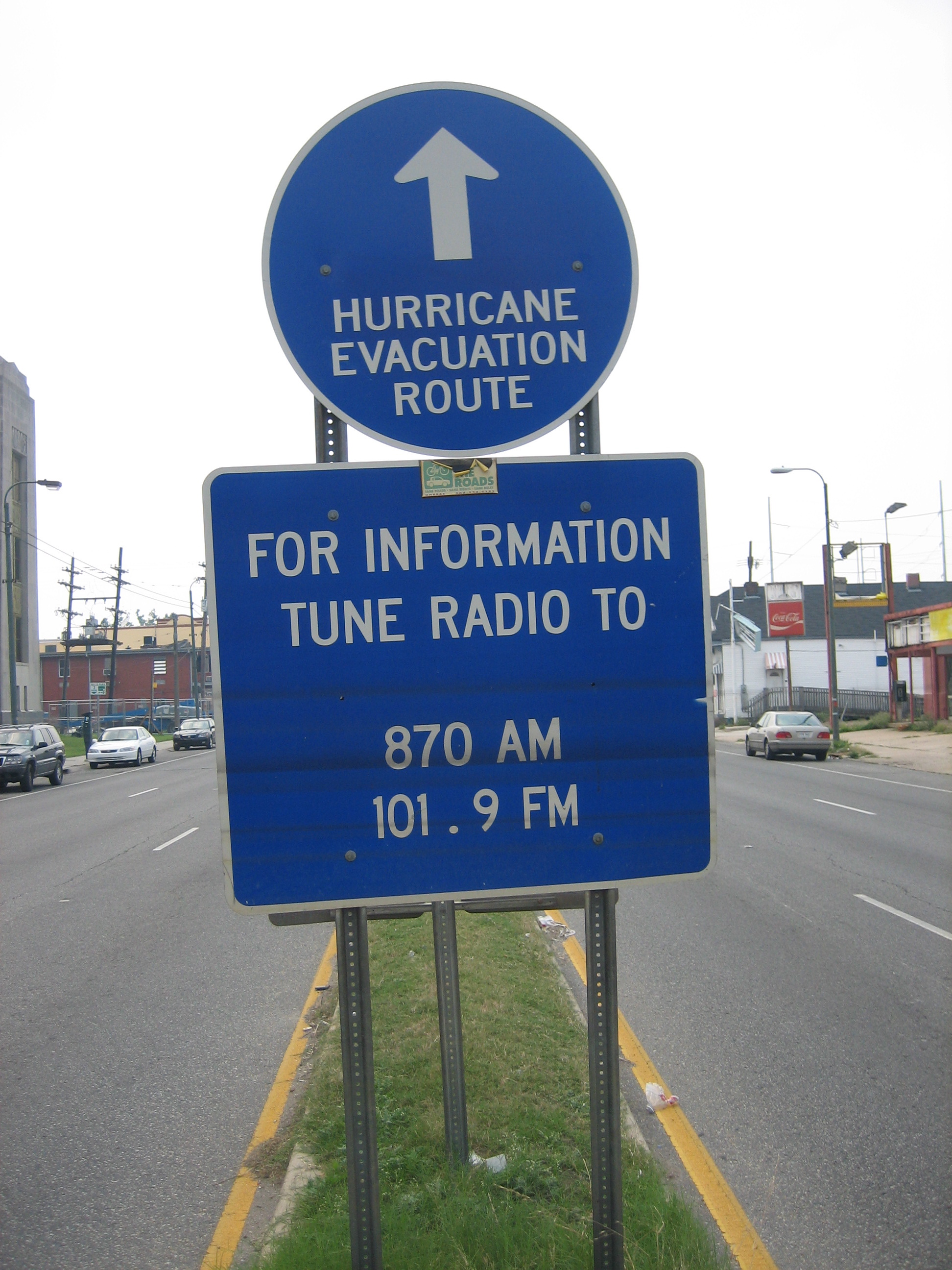 New Orleans after Hurricane Katrina: Hurricane evacuation route sign with lines left by levels of long standing floodwaters. Tulane Avenue just back from Broad. Photo by Infrogmation